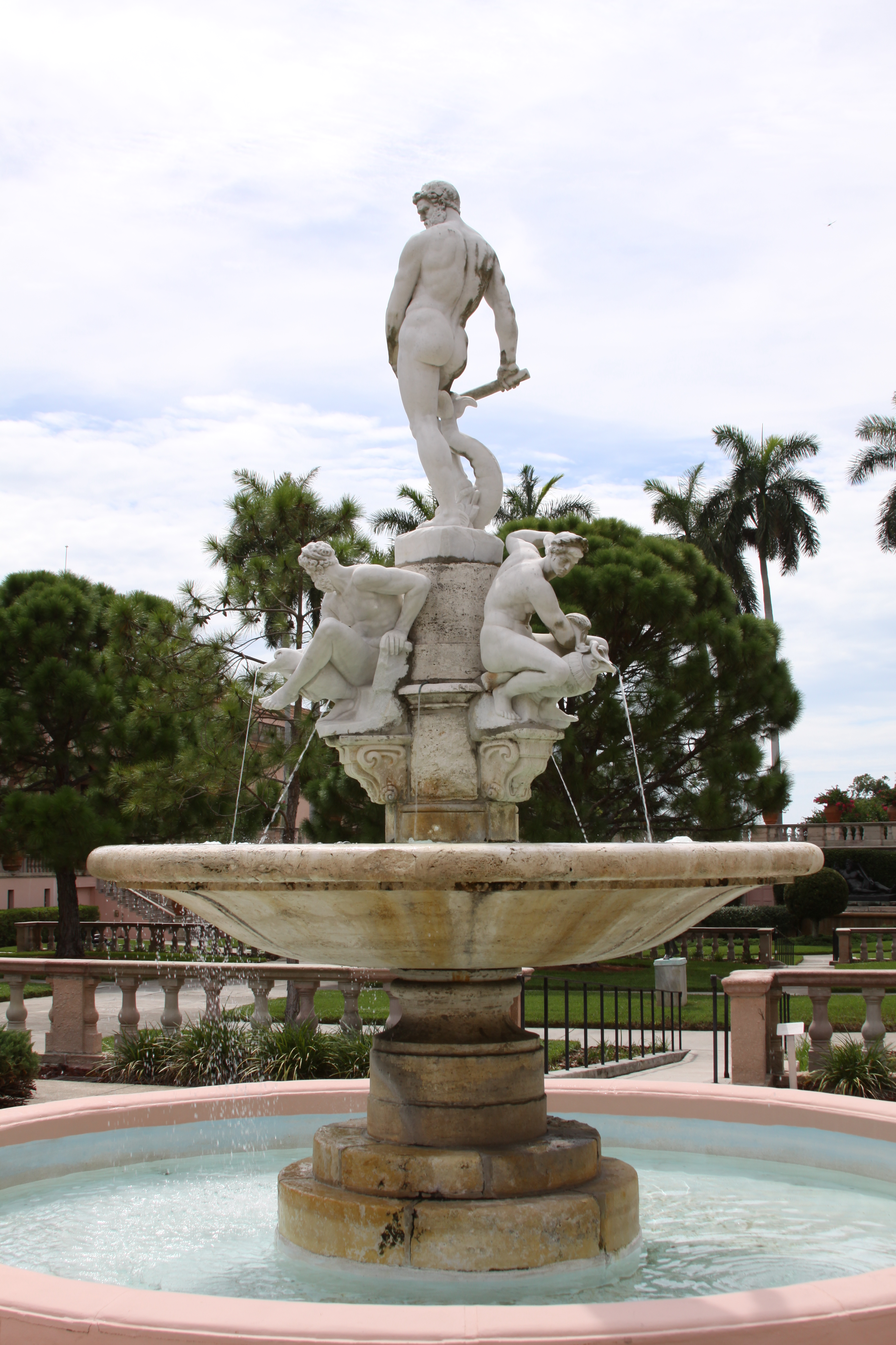 The Fountain of Oceanus in the Courtyard of The John and Mable Ringling Museum of Art is a modern copy of a sixteenth-century fountain by the italian Giovanni da Bologna. The original is in Boboli Gardens, Florence, Italy. Back detail. Sarasota, Florida.